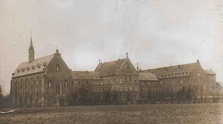 Franciscaner Monastery, Harreveld (Netherlands) ca 1900